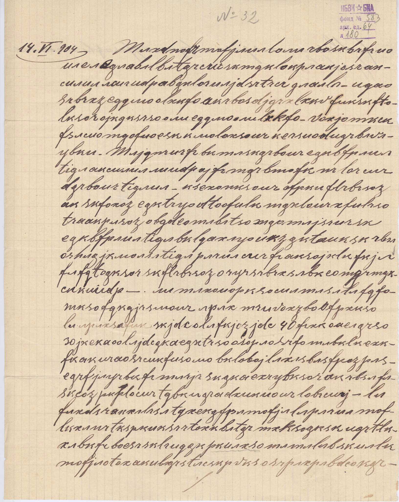 Pavel Hristov's Letter 1904-06-14